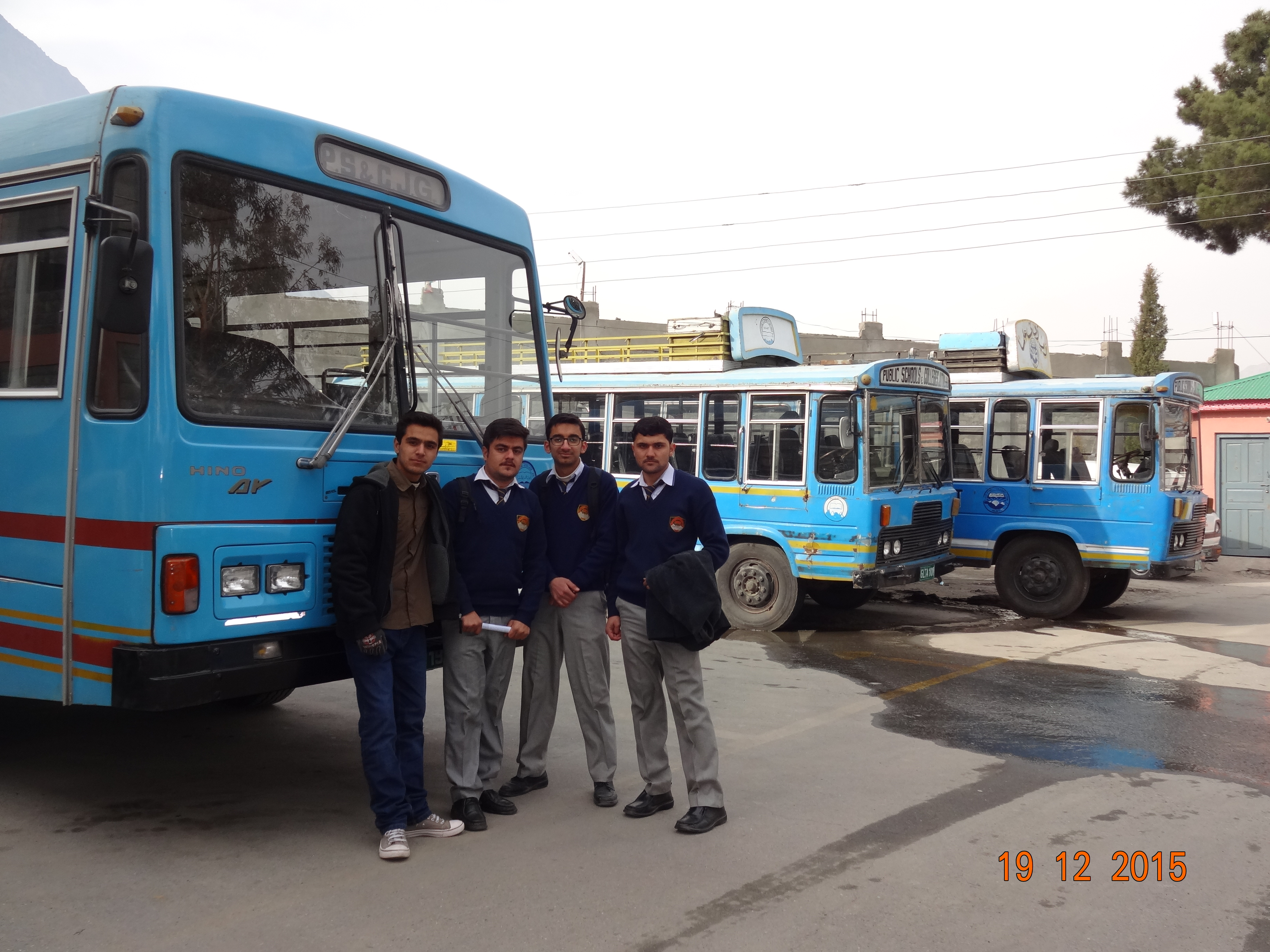 Bus facility is available for students in PSACJG.